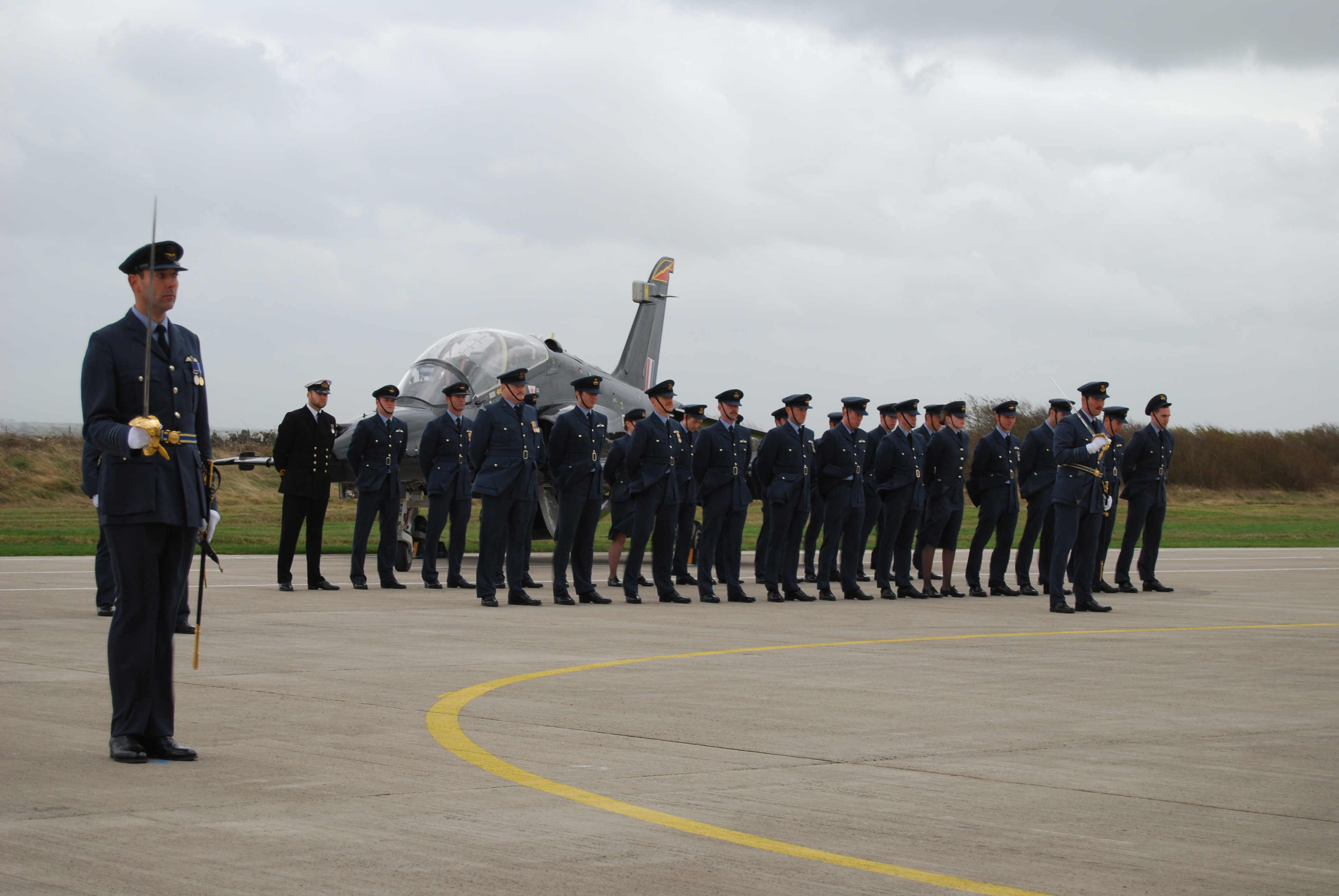 Taken at the 19 Squadron Disbandment Parade at RAF Valley on 24 November 2011. Leading the Parade (foreground, left) is Wg Cdr Kevin Marsh, the last Commanding Officer of 19 Squadron.